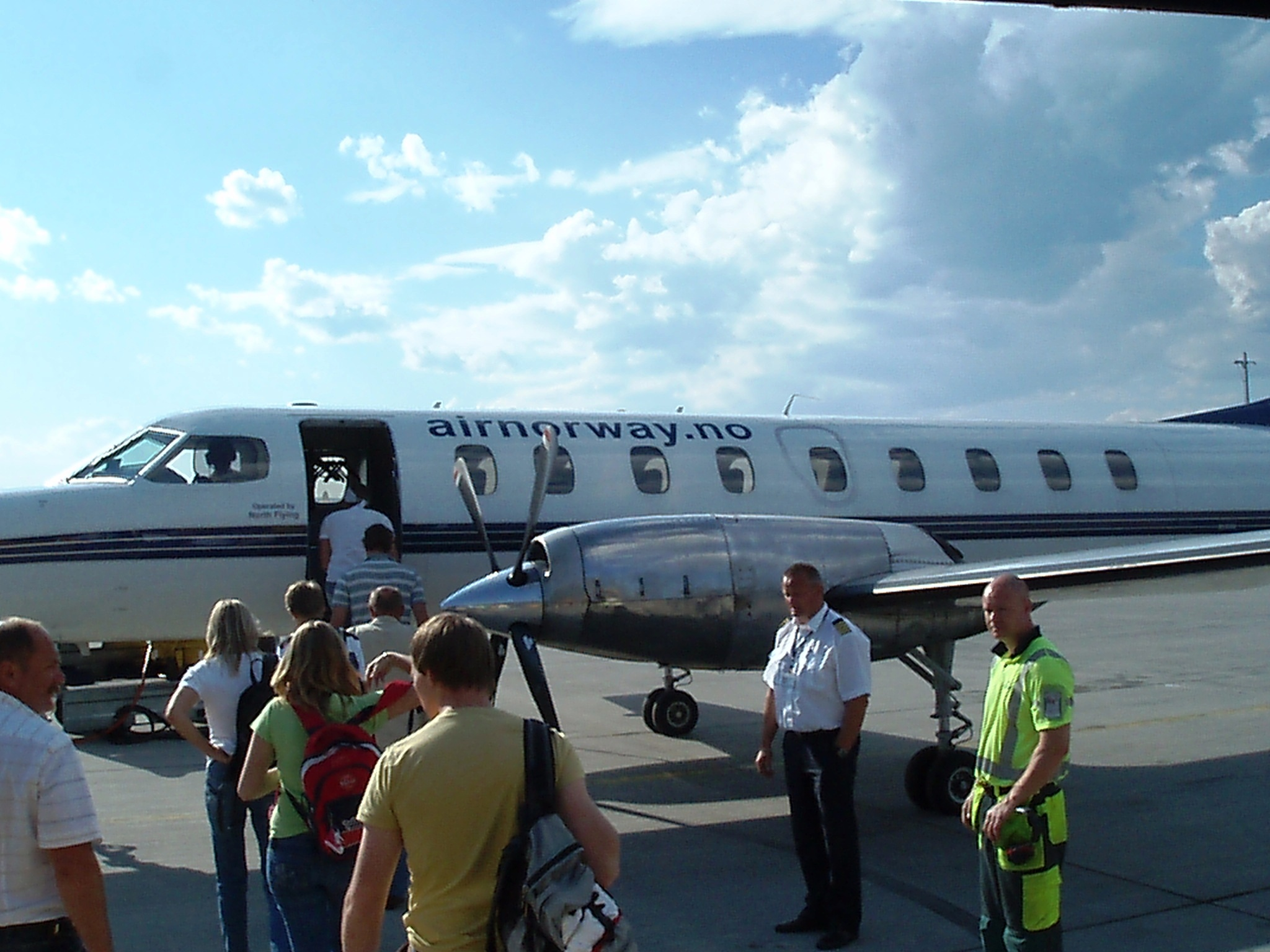 Air Norway, small Norwegian airline company